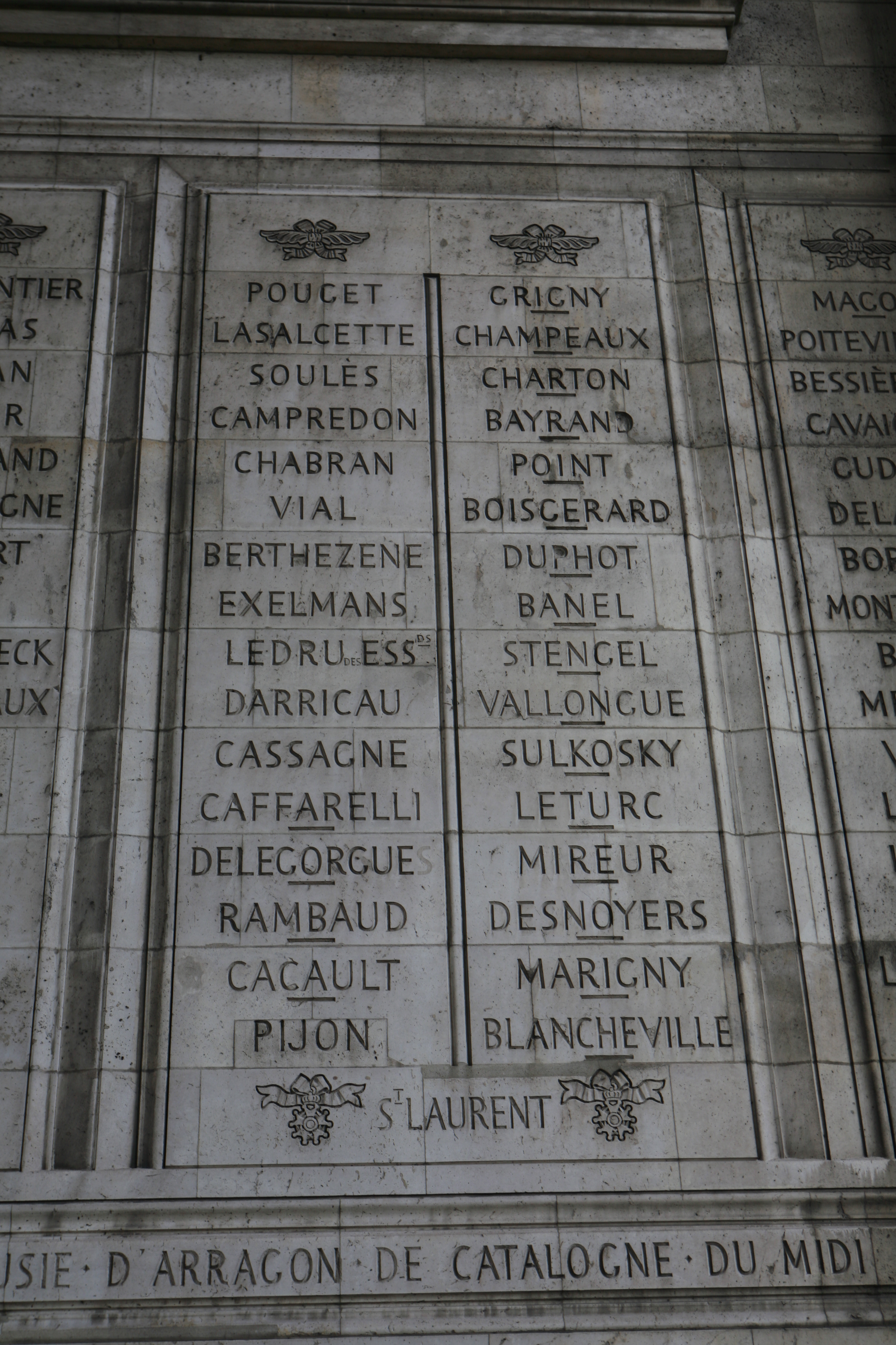 Inscriptions of the Arc de Triomphe. Southern pillar, Columns 27, 28.